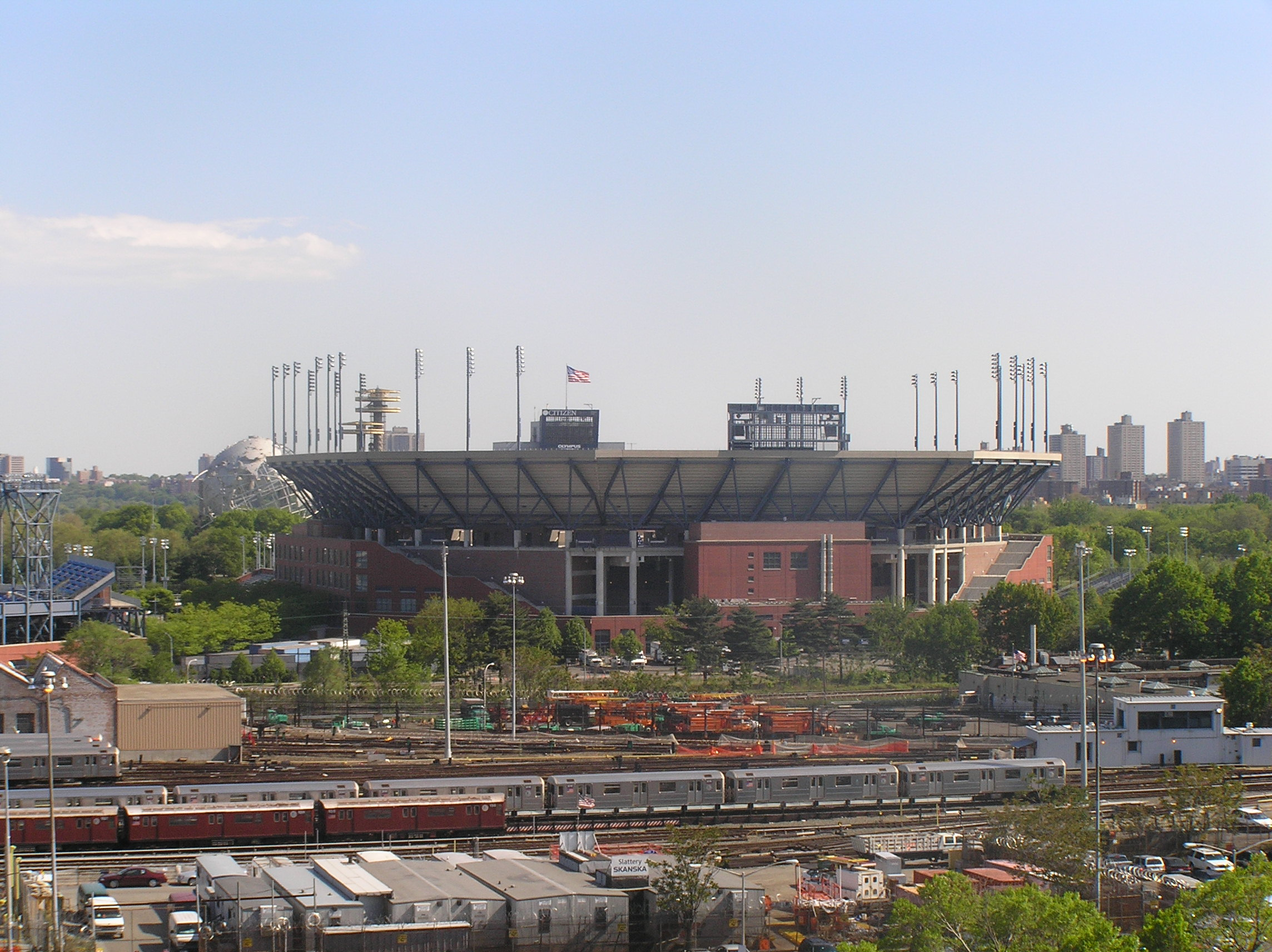 Arthur Ashe Stadium